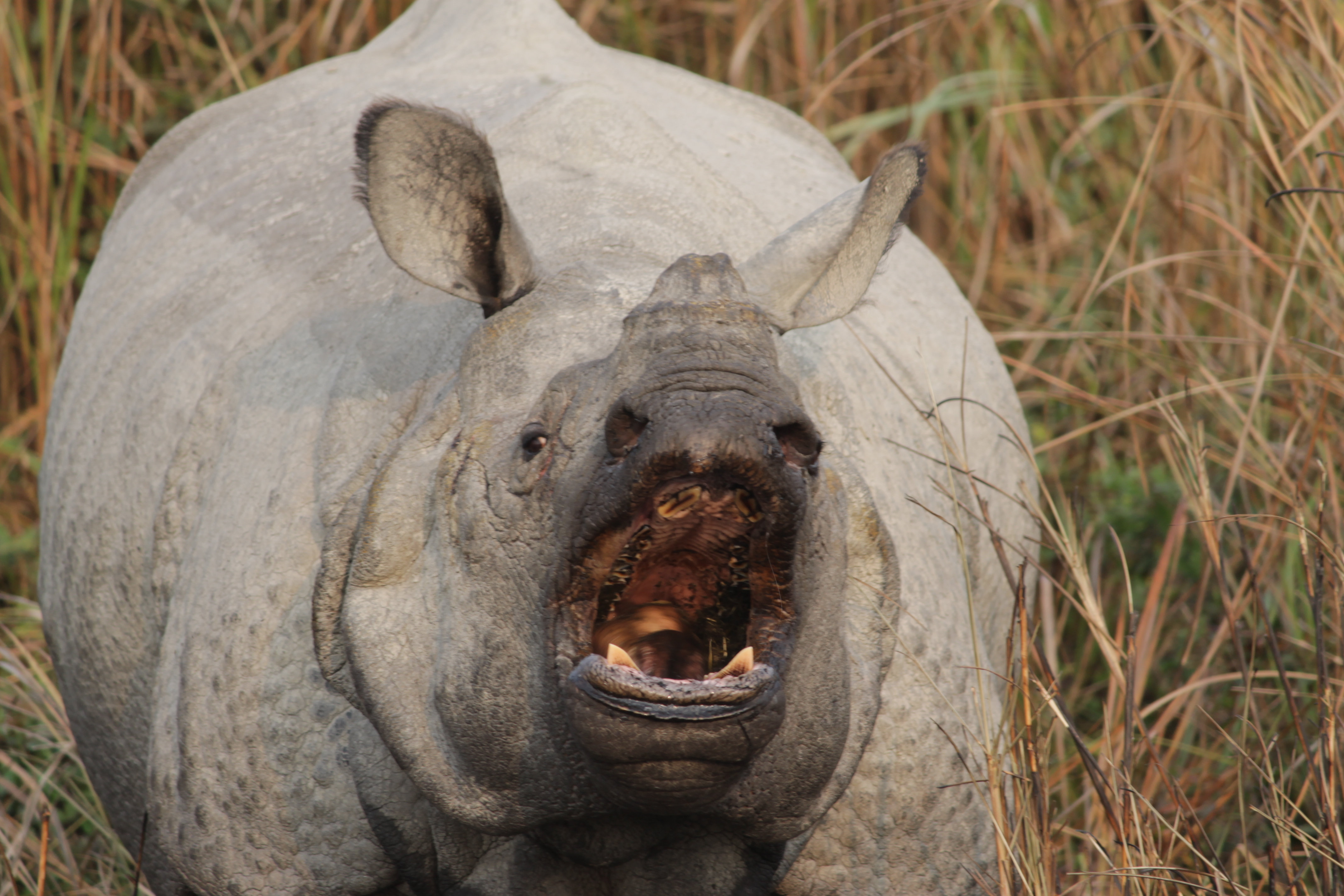 Aggressive rhino at early winter morning hours, Kaziranga national park